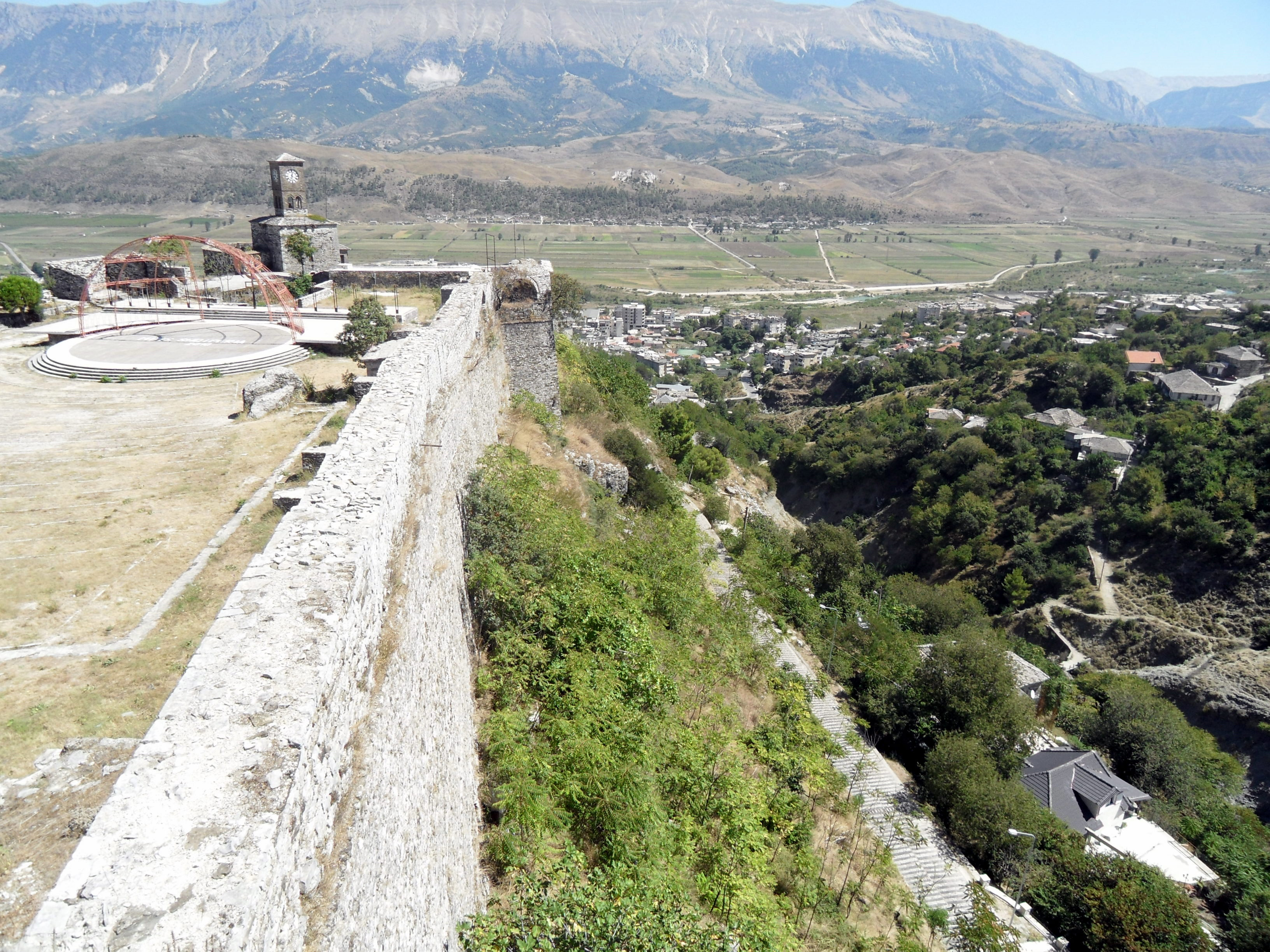 Castle in Gjirokastër